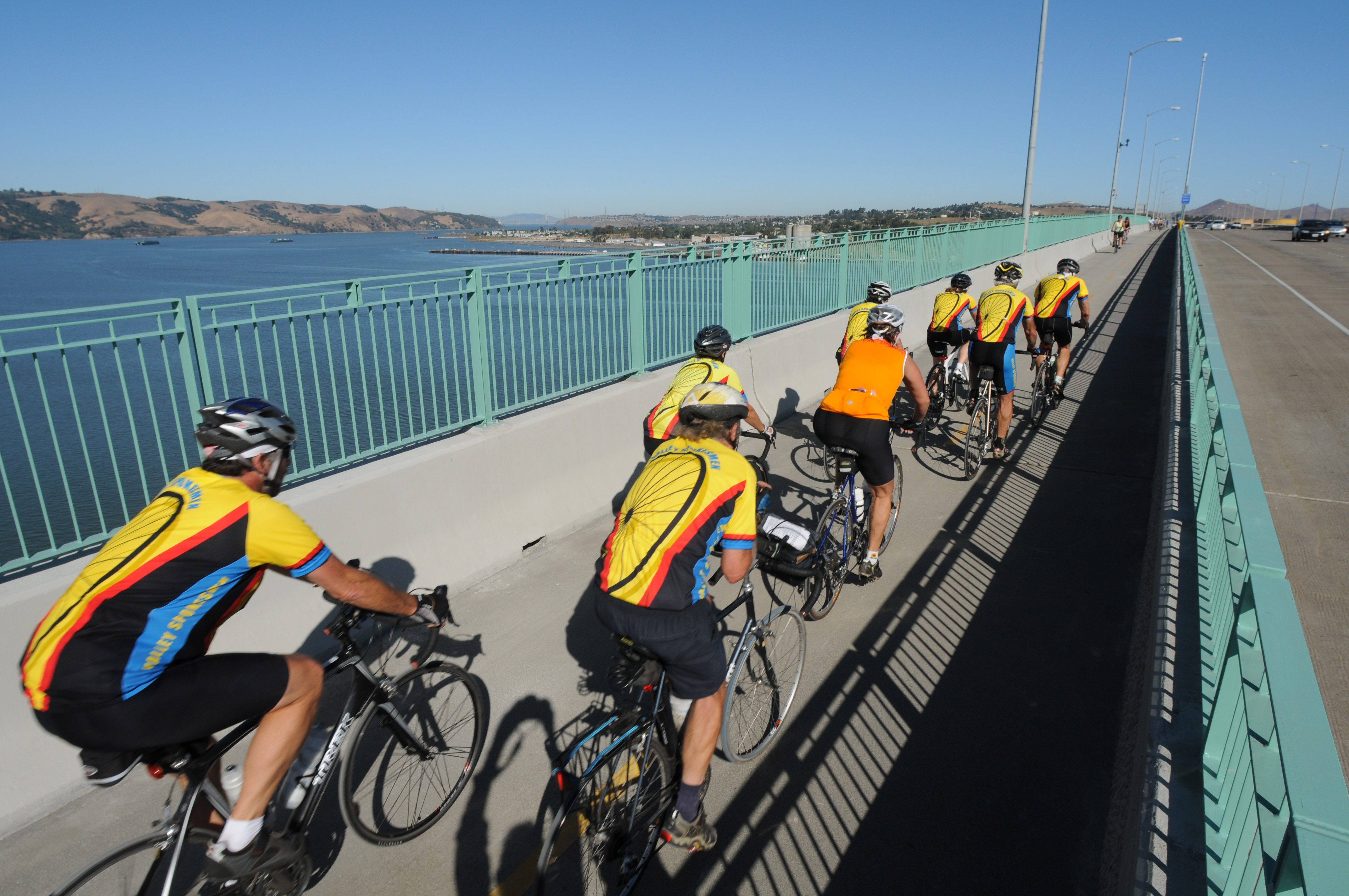 Benicia-Martinez Bridge bicyclists